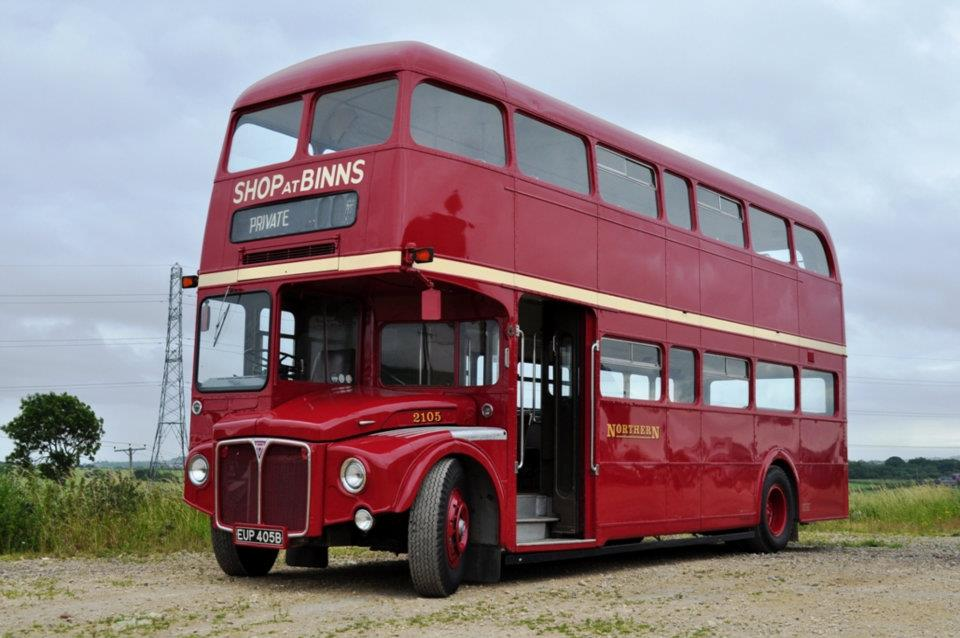 Northern 2105 (reg. EUP 405B), one of the Northern Routemasters, seen here in preservation in original livery.